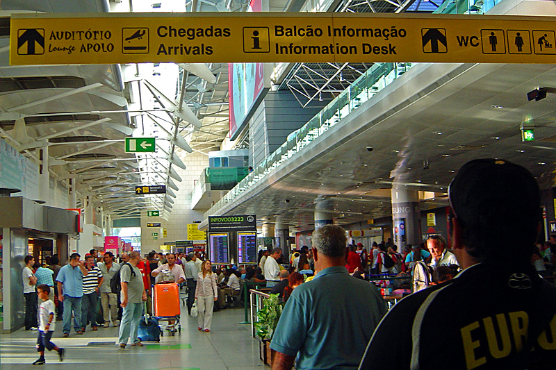 Lisbon Airport Arrivals concourse, Portugal, 2008.